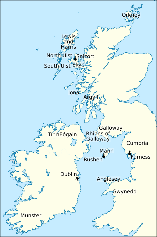 Map created for the Wikipedia article concerning Óláfr Guðrøðarson, King of the Isles (died 1153).